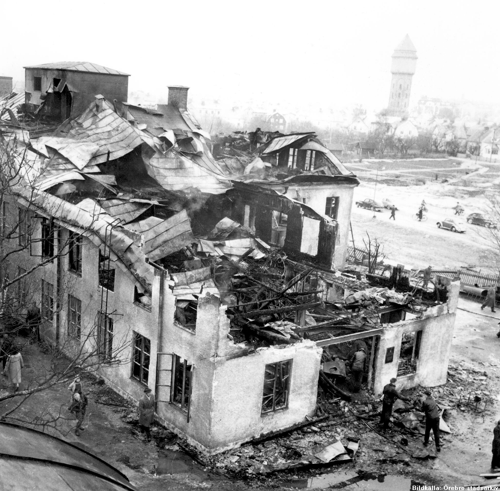 A pottery plant in Örebro, Sweden, after fire